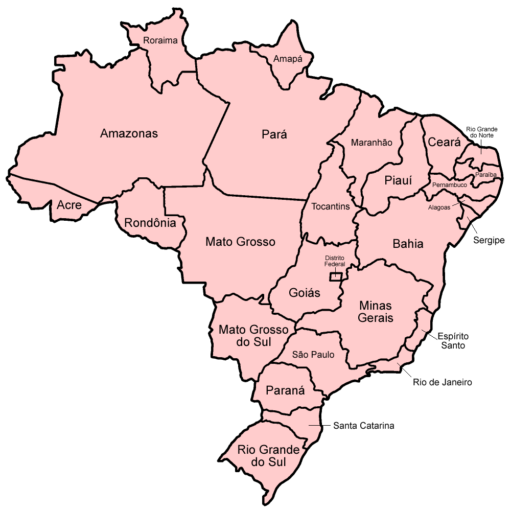 Map of the states of Brazil in Portuguese. Made by User:Golbez.